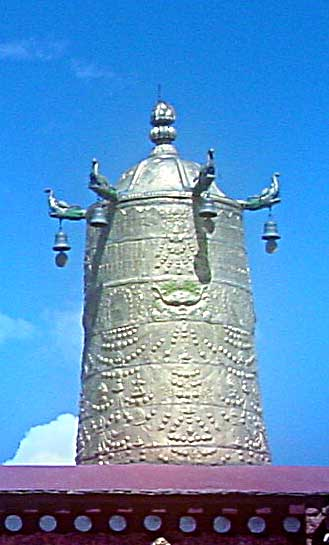 Author and photography: Kosi Gramatikoff (Tibet 2005), Dhvaja (Victory banner), Roof of Jokhang Monastery.